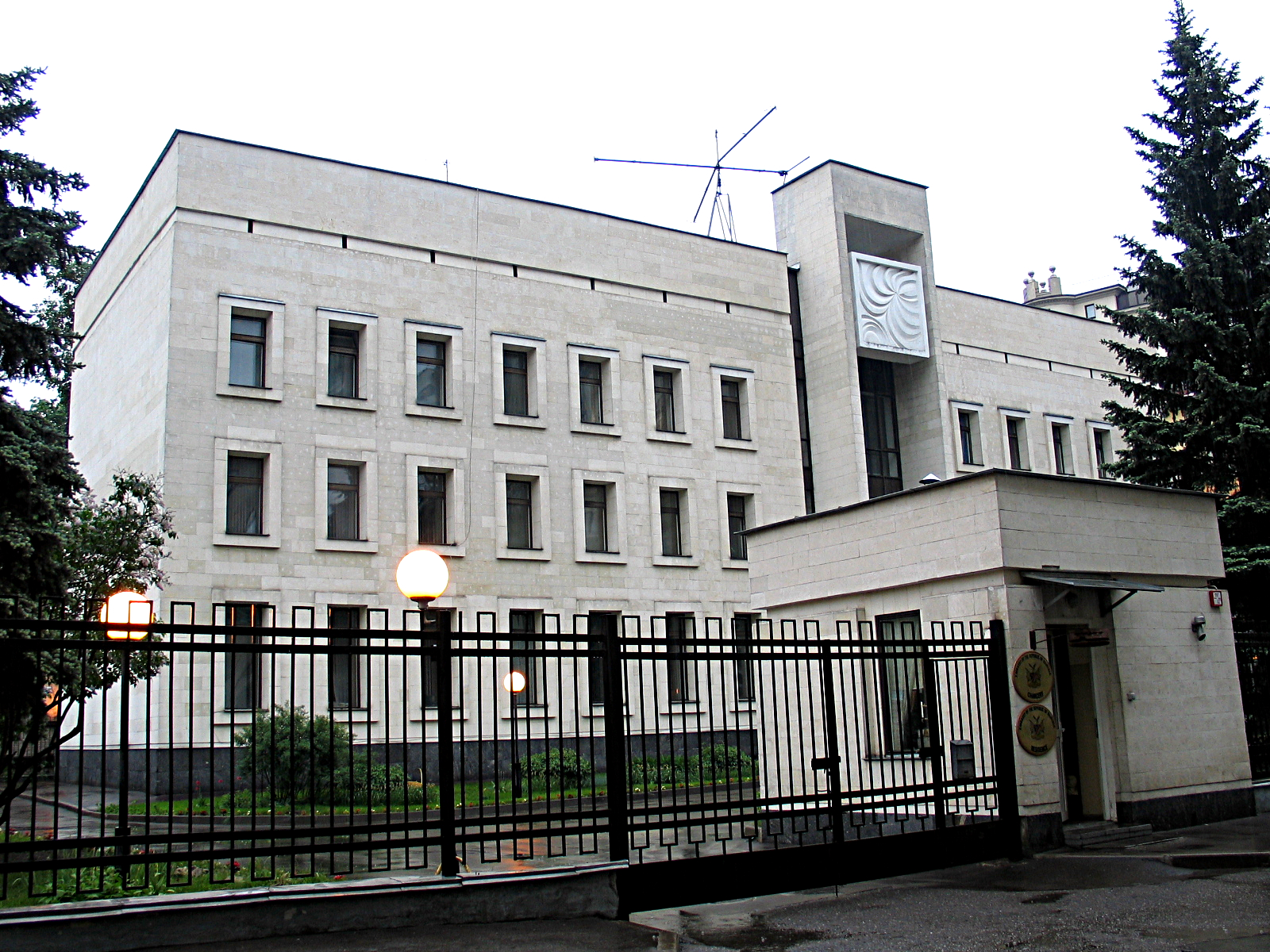 Embassy of Namibia in Moscow (2nd Kazachiy Side Street, 7)